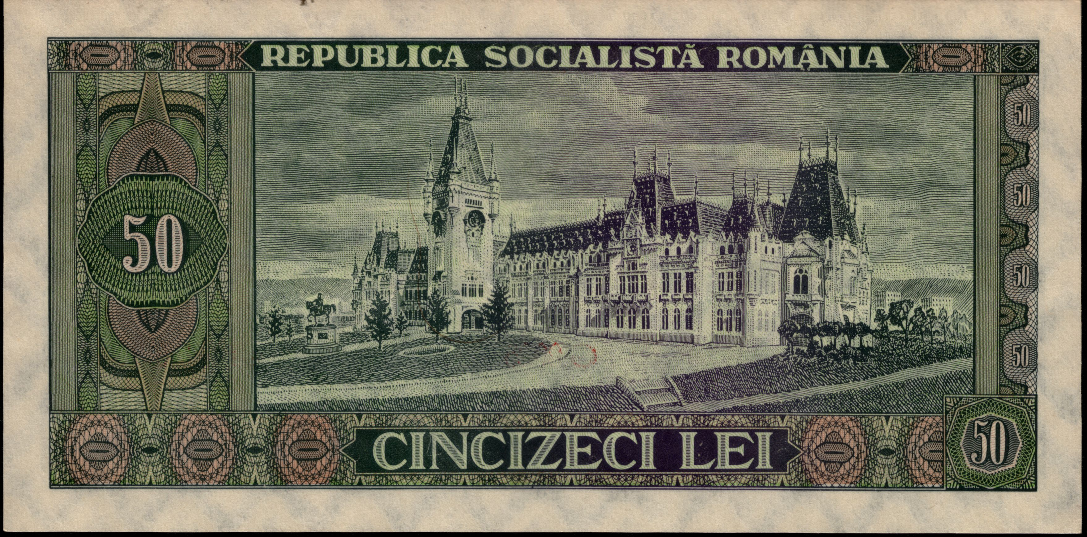 50 Romanian leu from 1966 - reverse 01